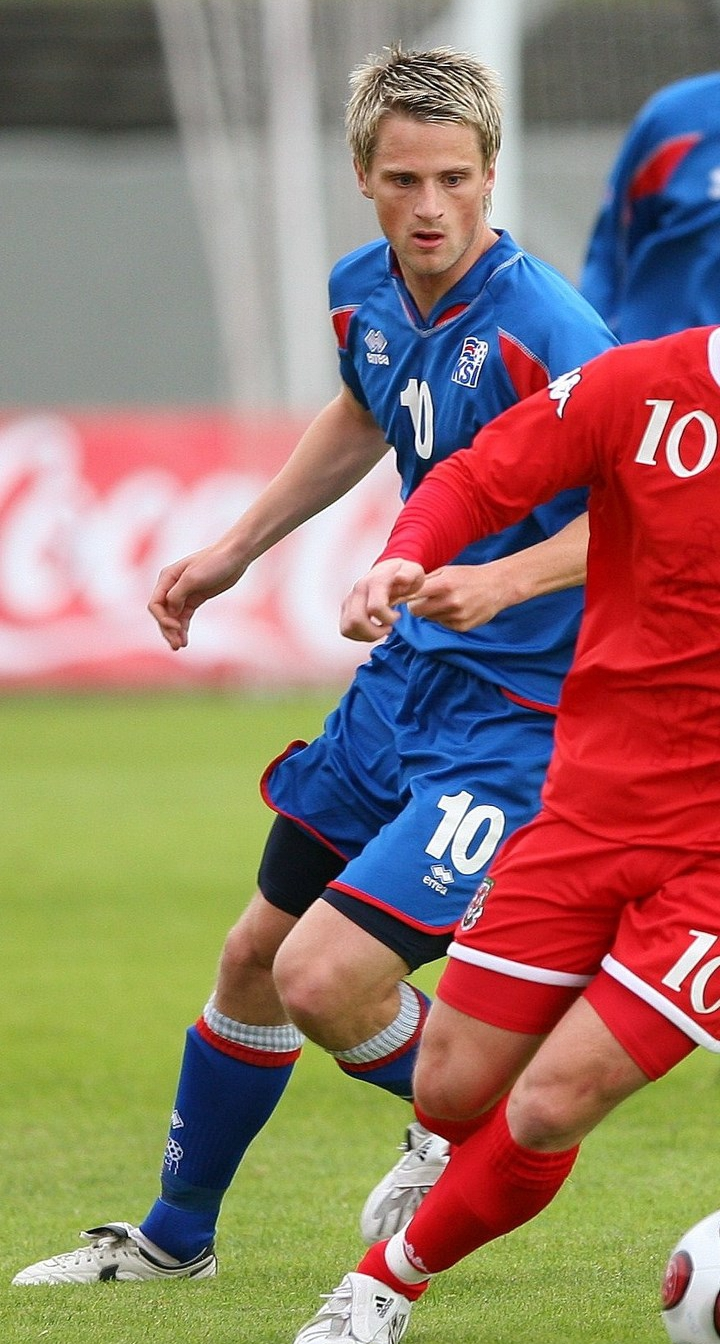 Football players Gunnar Heiðar Þorvaldsson of Iceland (blue) and Jason Koumas of Wales (red) during match against their national teams.